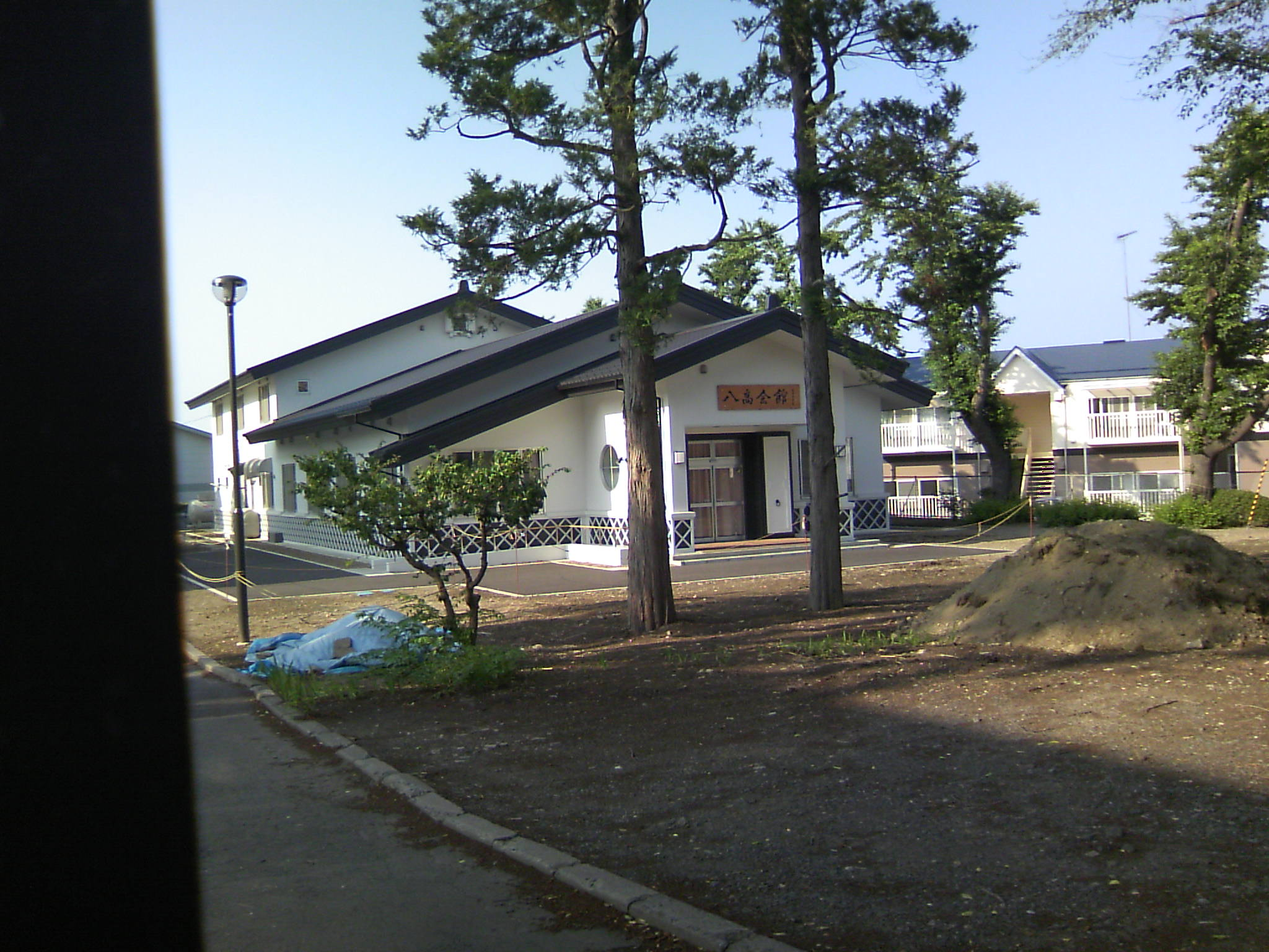 Hachinohe Highschool - Hachikou-Kaikan (Hachinohe, Aomori, JAPAN)